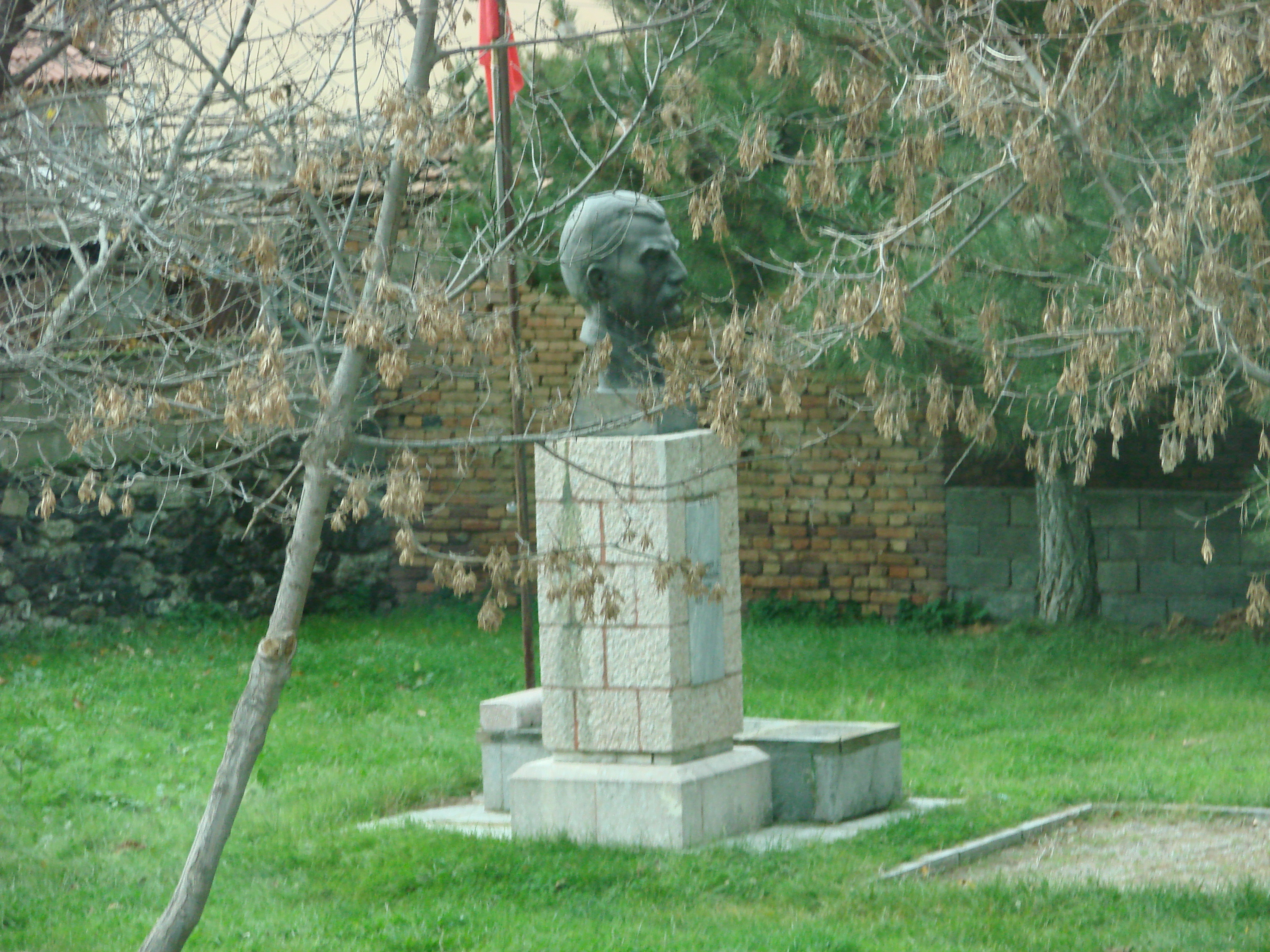 Bust of Aleksandër Stavre Drenova